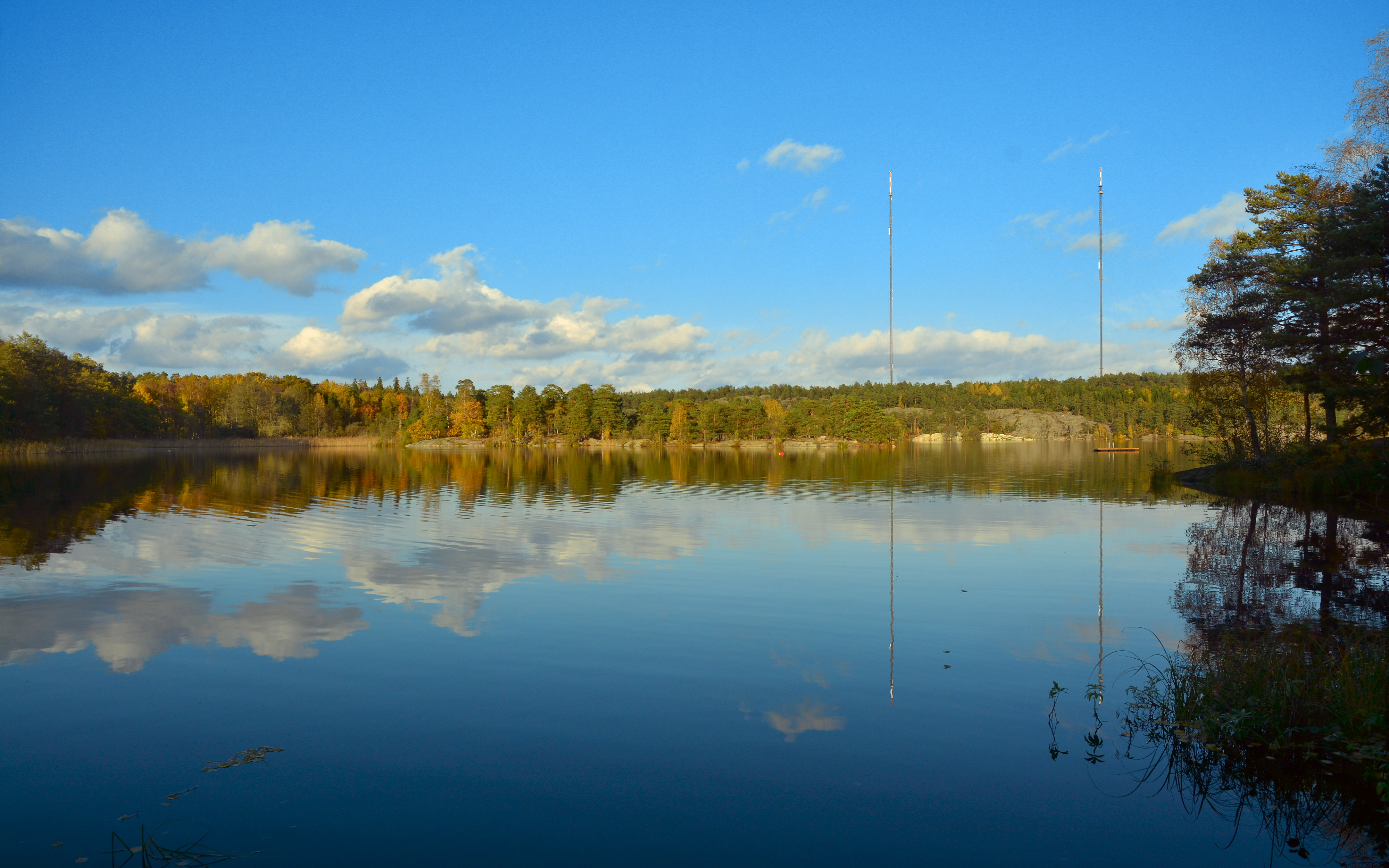 The lake Källtorpssjön in Nacka Municipality